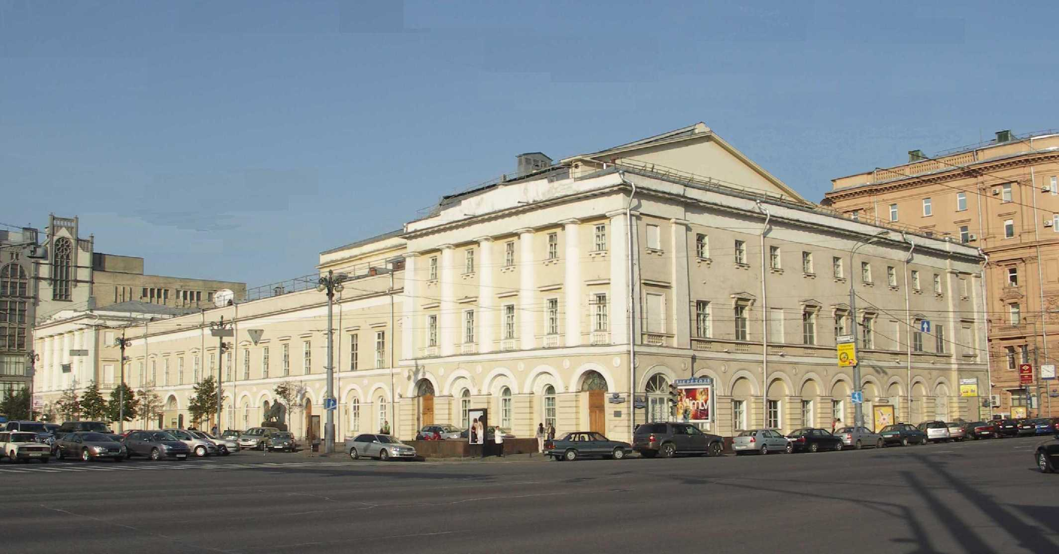 Maly Theatre, Moscow, in 2005.